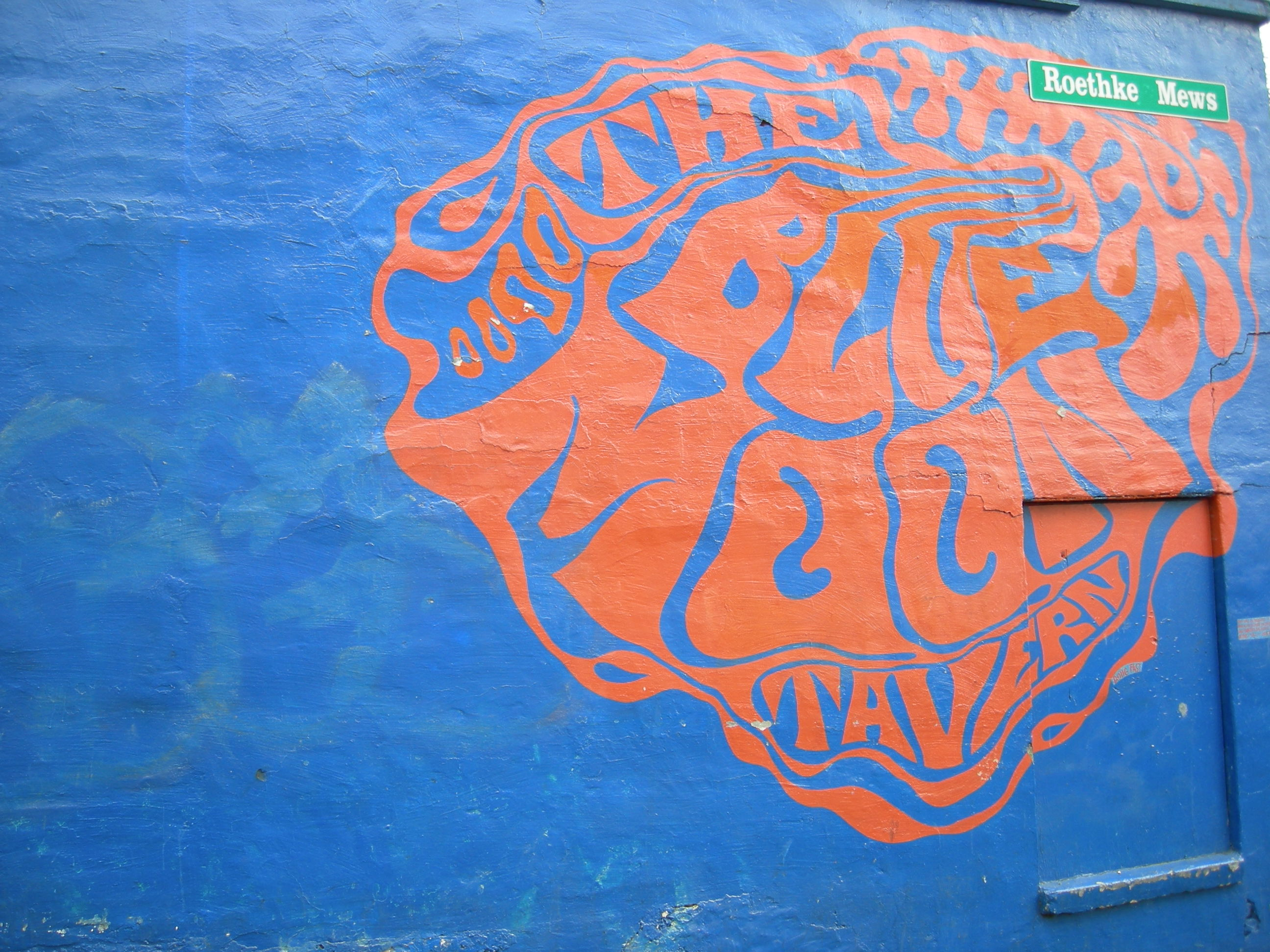 Alley side of the Blue Moon Tavern, University District, Seattle, Washington. The psychedelic orange and blue sign for the tavern dates from the 1980s. The small green and white street sign says "Roethke Mews" after poet Ted Roethke, who was a regular at the Blue Moon in the 1950s and early 1960s.